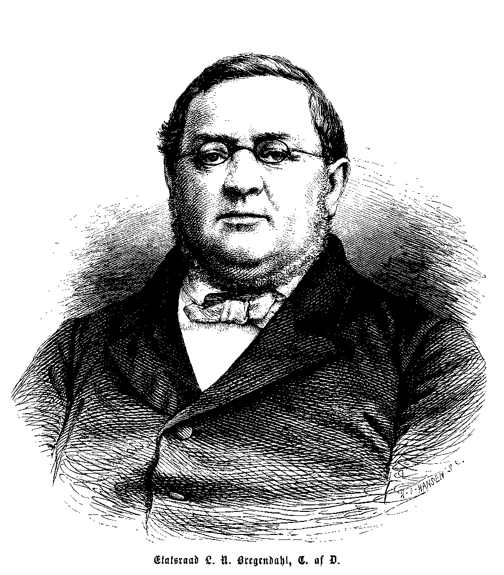 Laurids Nørgaard Bregendahl (1811-1872), Danish jurist and politician, MP, Speaker of the Folketing